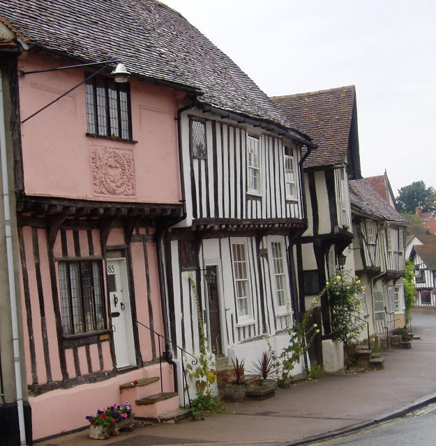 Lavenham.